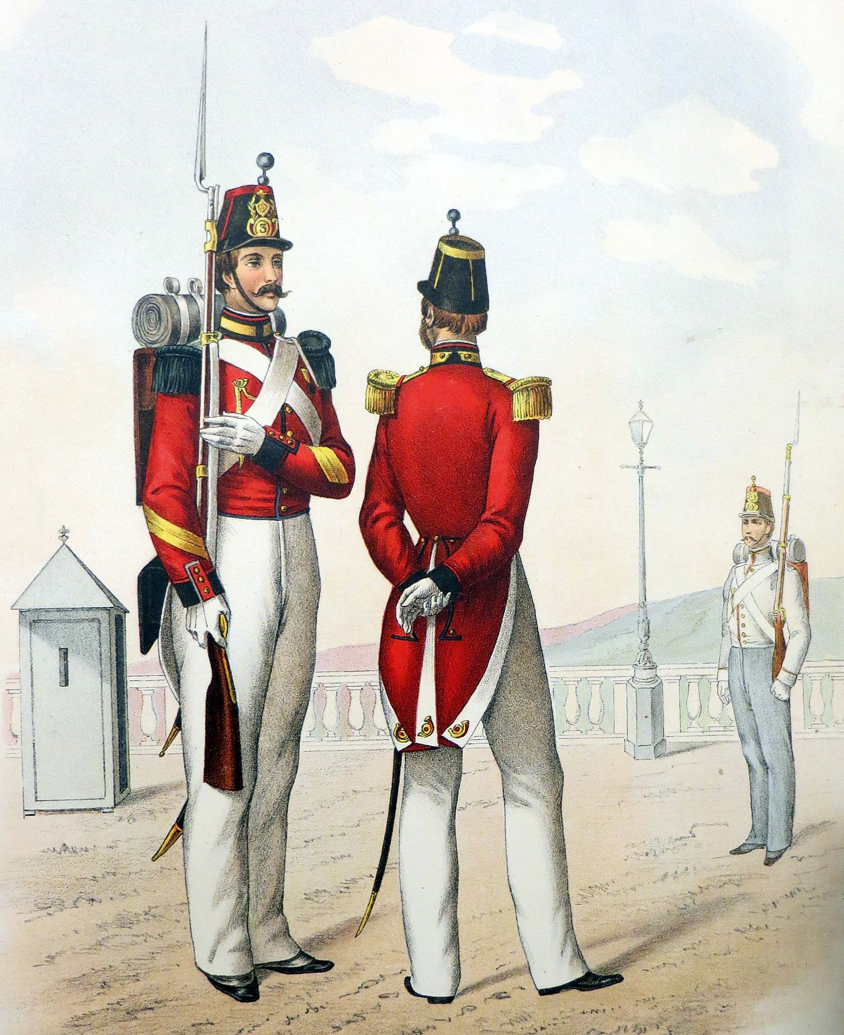 Uniform of the Rangers of the 3. Swiss Regiment in Naples 1845-1859 Foreground: Sergeant and Captain in full dres summertime Background: Sentry in fatigues summertime